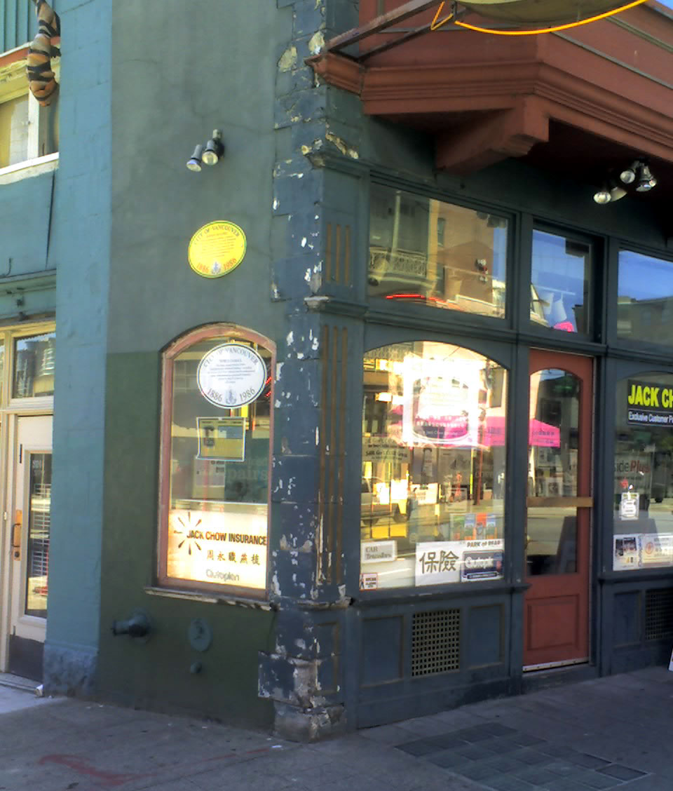 Photo taken by self, with cellphone. August 13, 2007 East side of the Sam Kee Building in Vancouver. The green paint indicates the entire width of the building.